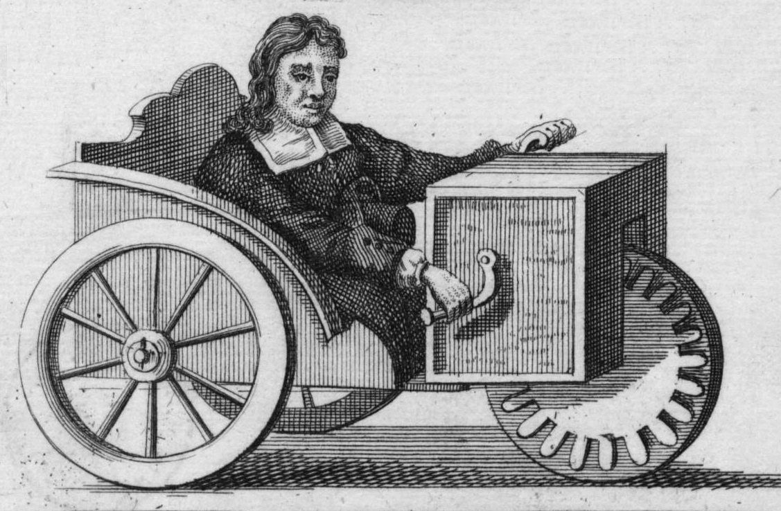 Self-propelled wheelchair of paralyzed watchmaker Stephan Farffler from 1655 built by him at the age of 22.